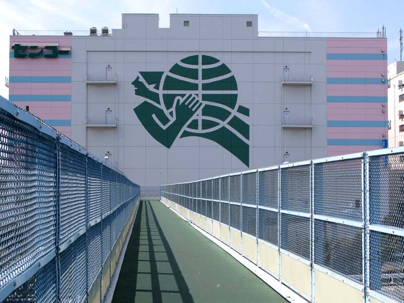 SENKO CO.,LTD. Heiwajima PD center